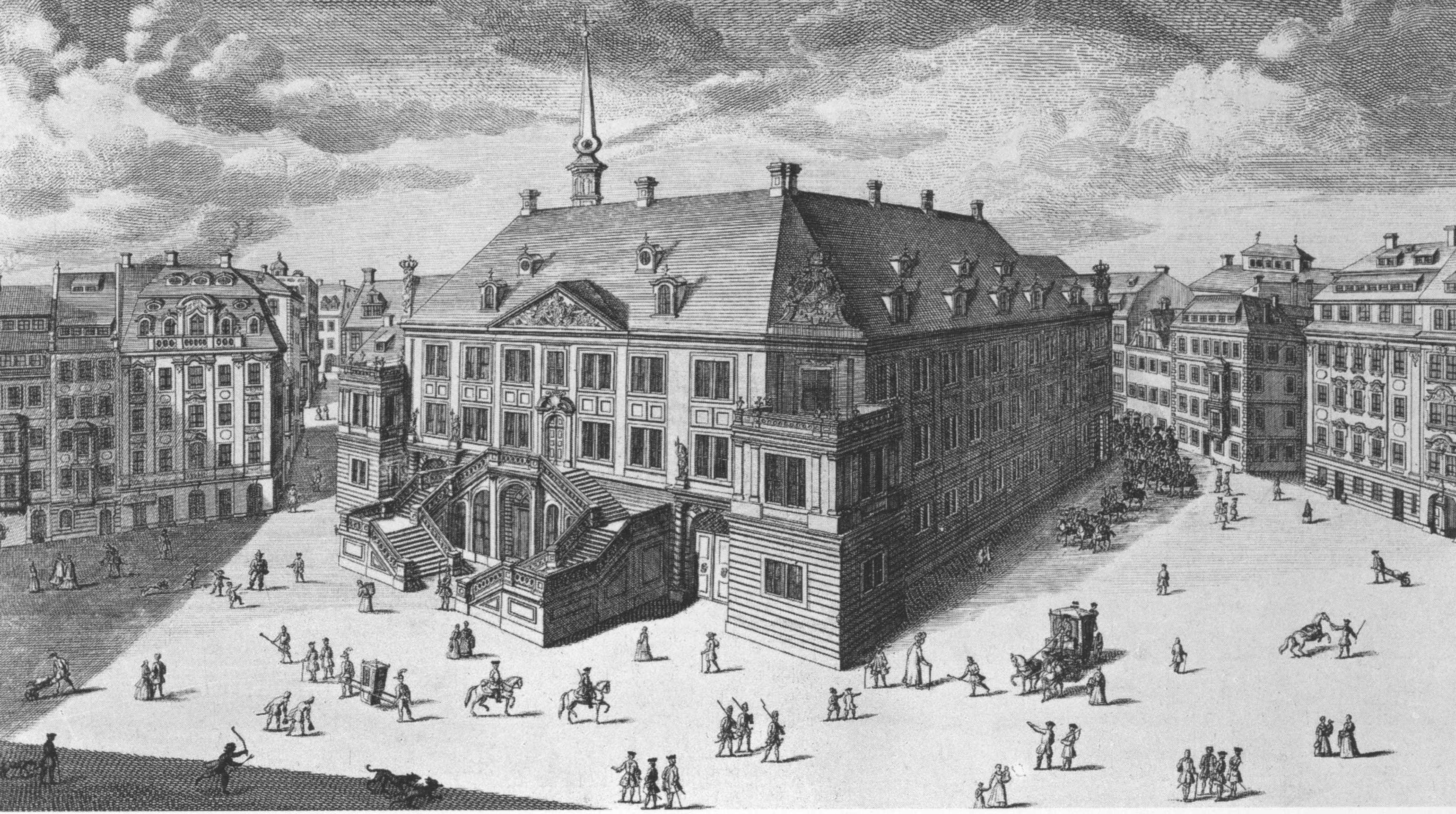 The Stallgebäude near the Neumarkt in Dresden in 1731